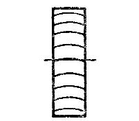 Sprocket Whell